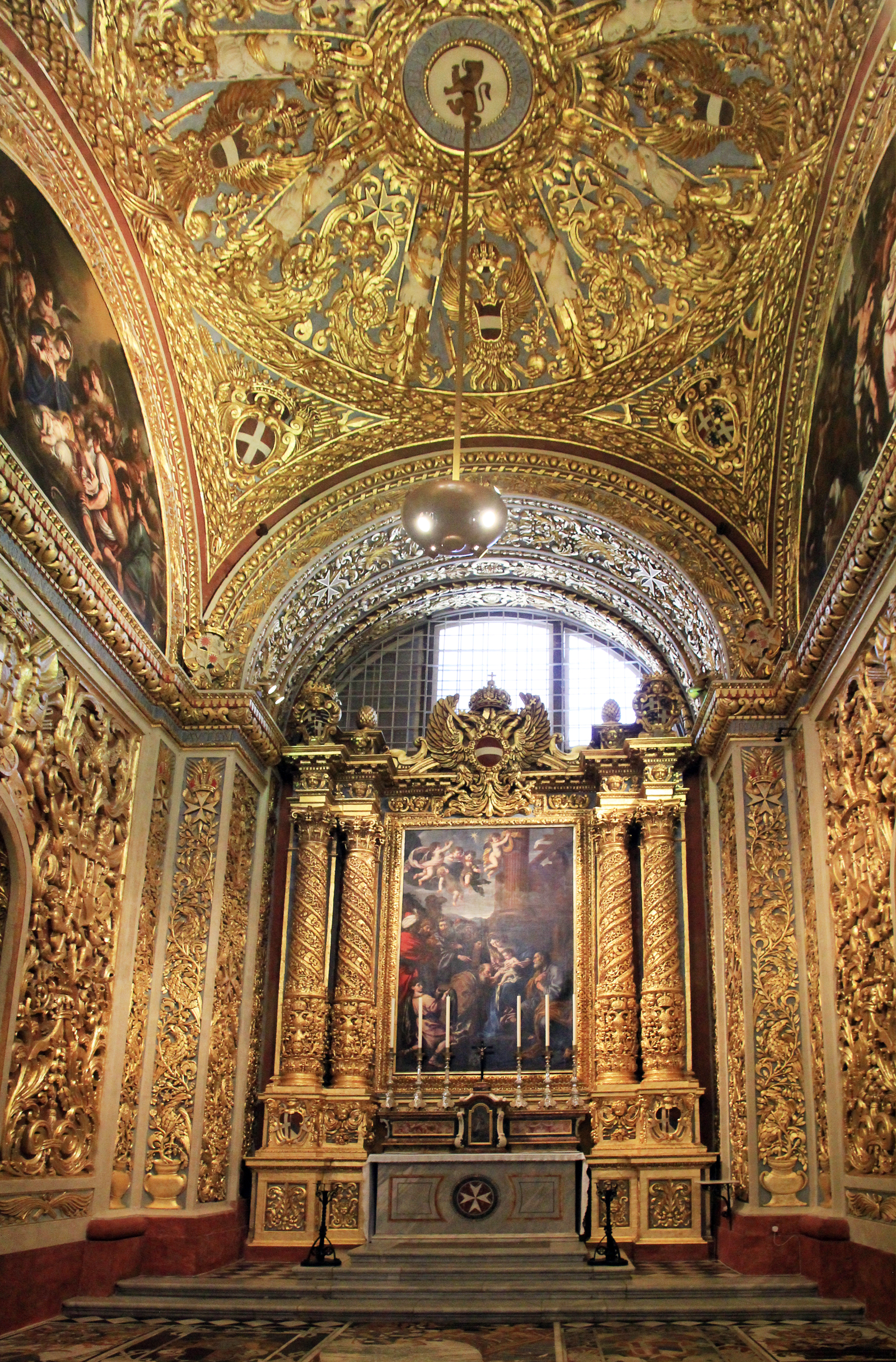 Interior of St. John's Co-Cathedral in Valletta, Malta